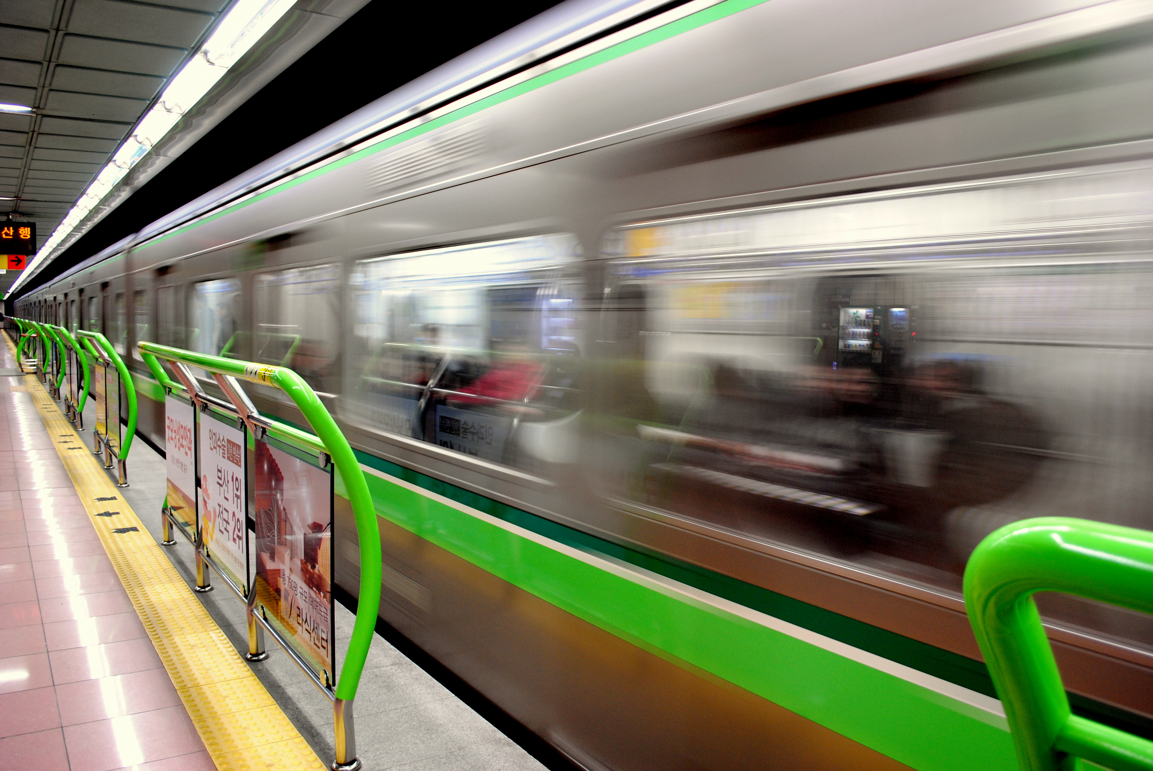 Busan Subway Line 2. Photograph from Flickr; author Raíssa Ruschel; license of cc-by-2.0.